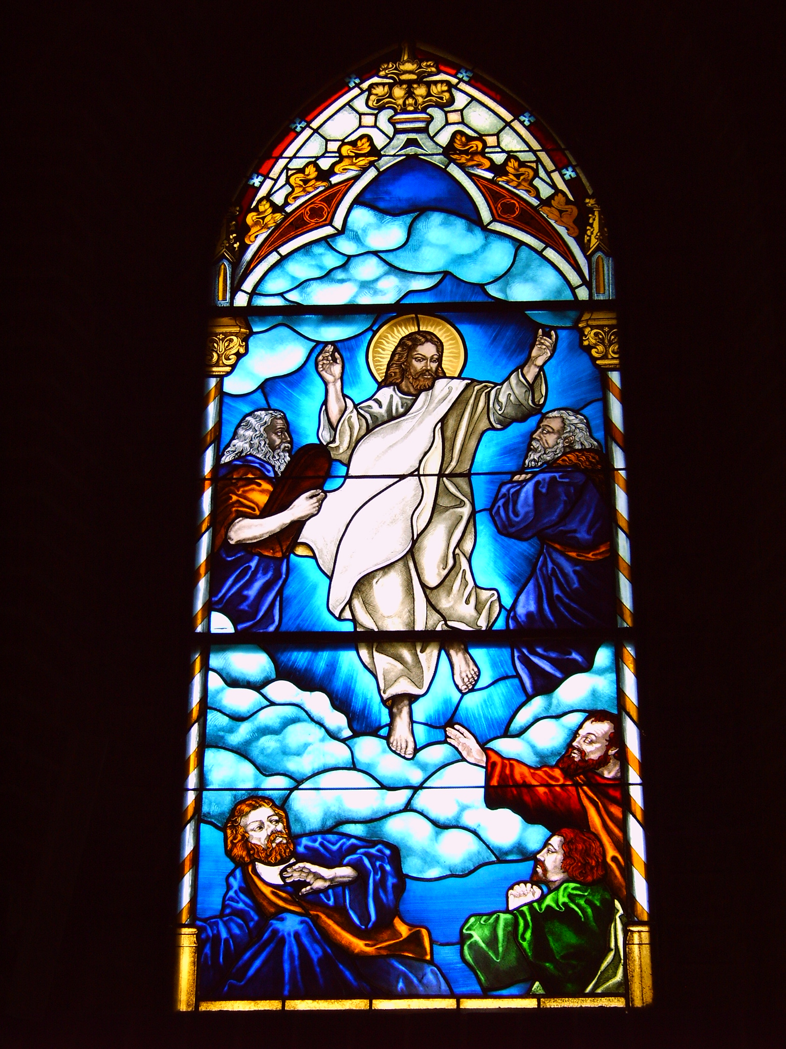 Poland, Mielno, church, stained glass - Transfiguration of Jesus